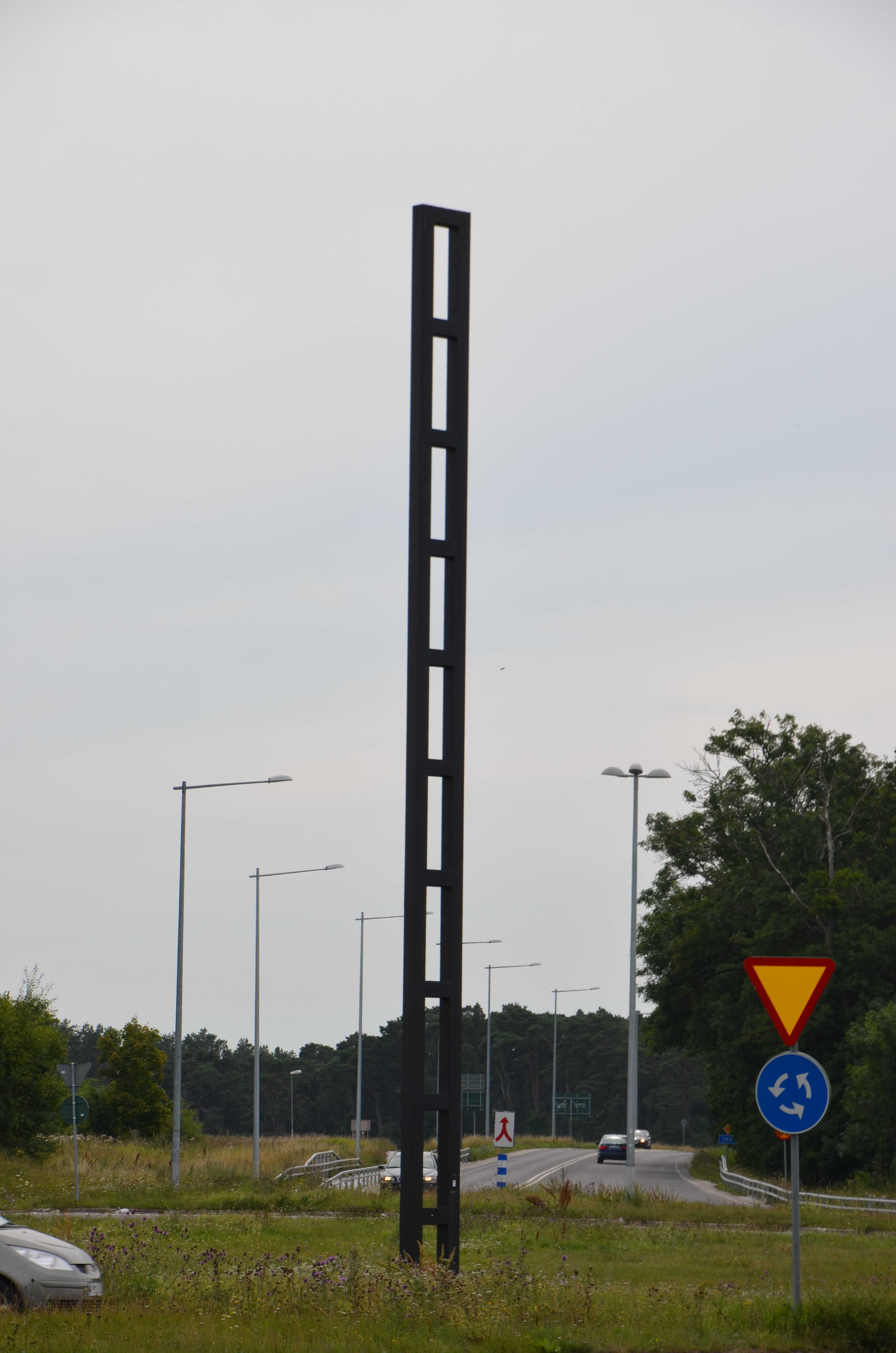 Ingvar Cronhammars Omen, rondellen vid södra infarten till Visby